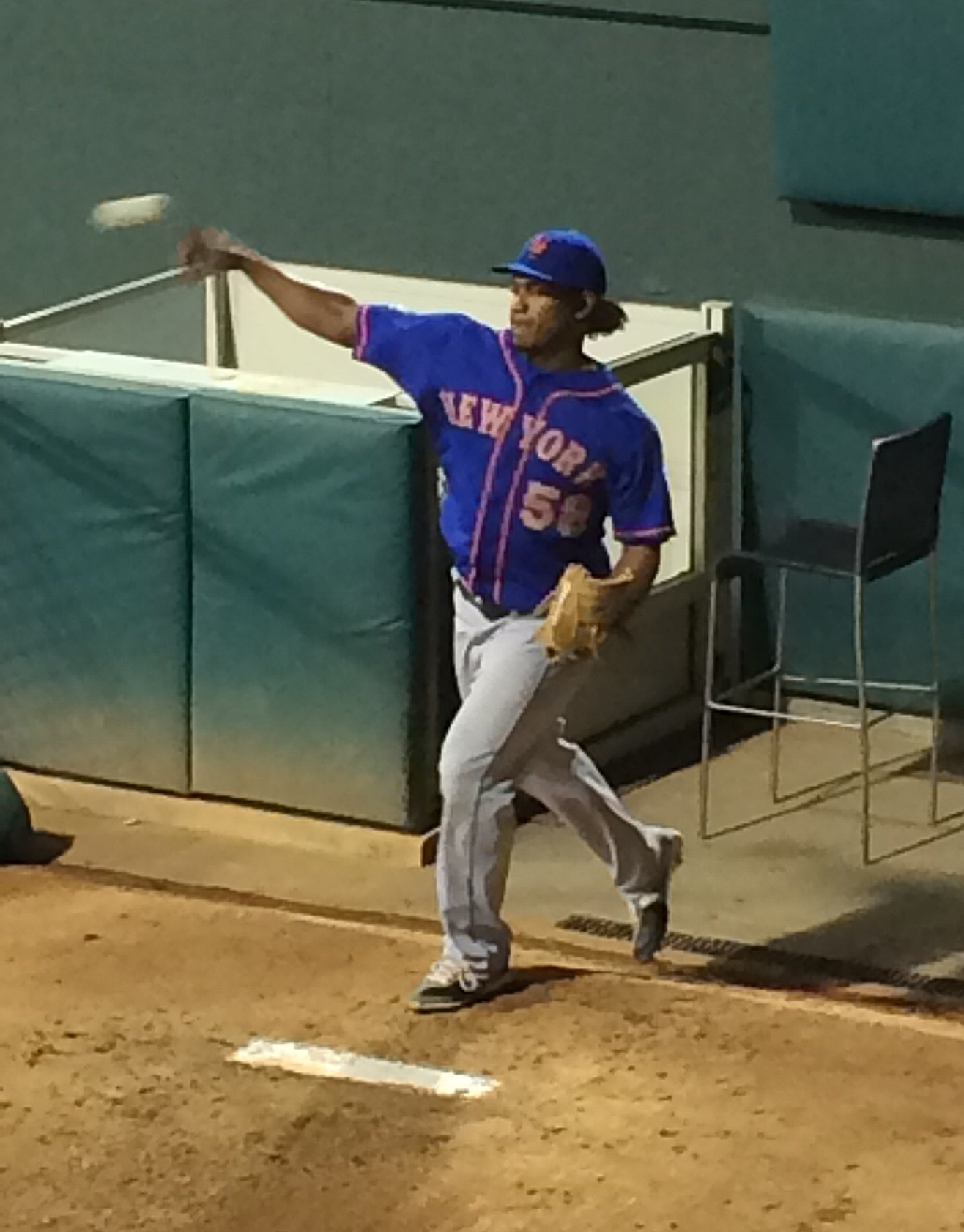 Jenrry Mejía warms up in the bullpen at Citizens Bank Park